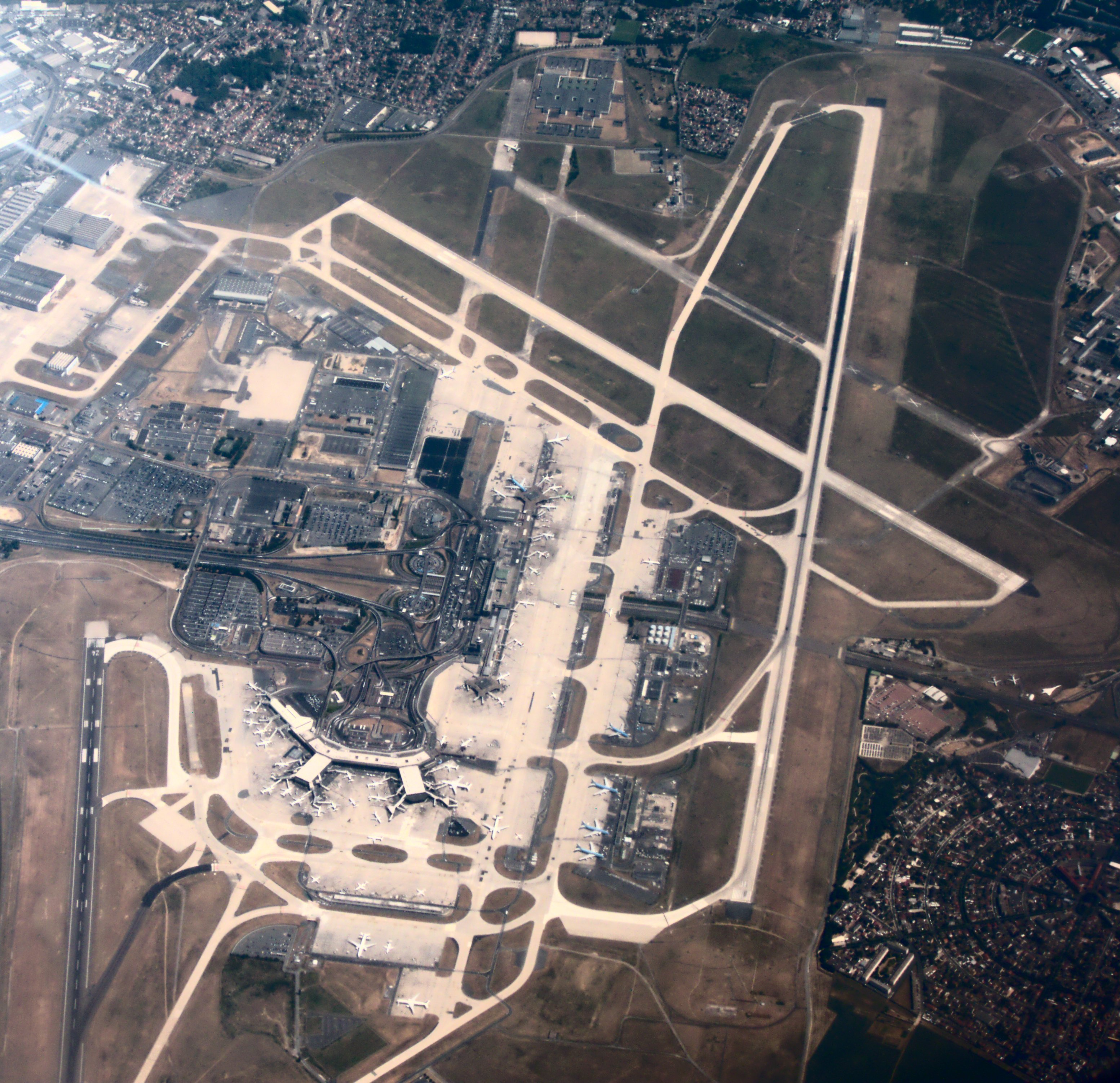 Orly Airport, from an airliner